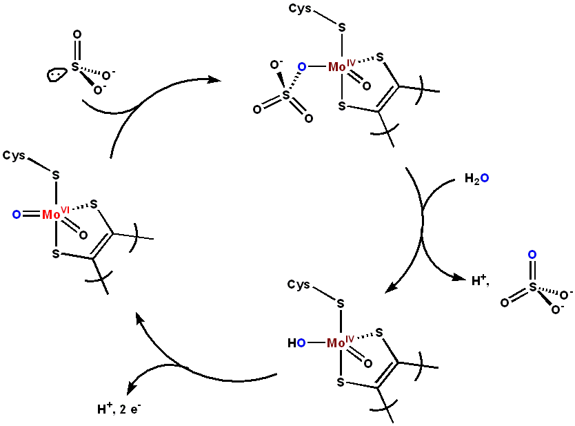 Structural drawing of the proposed mechanism of sulfite oxidase